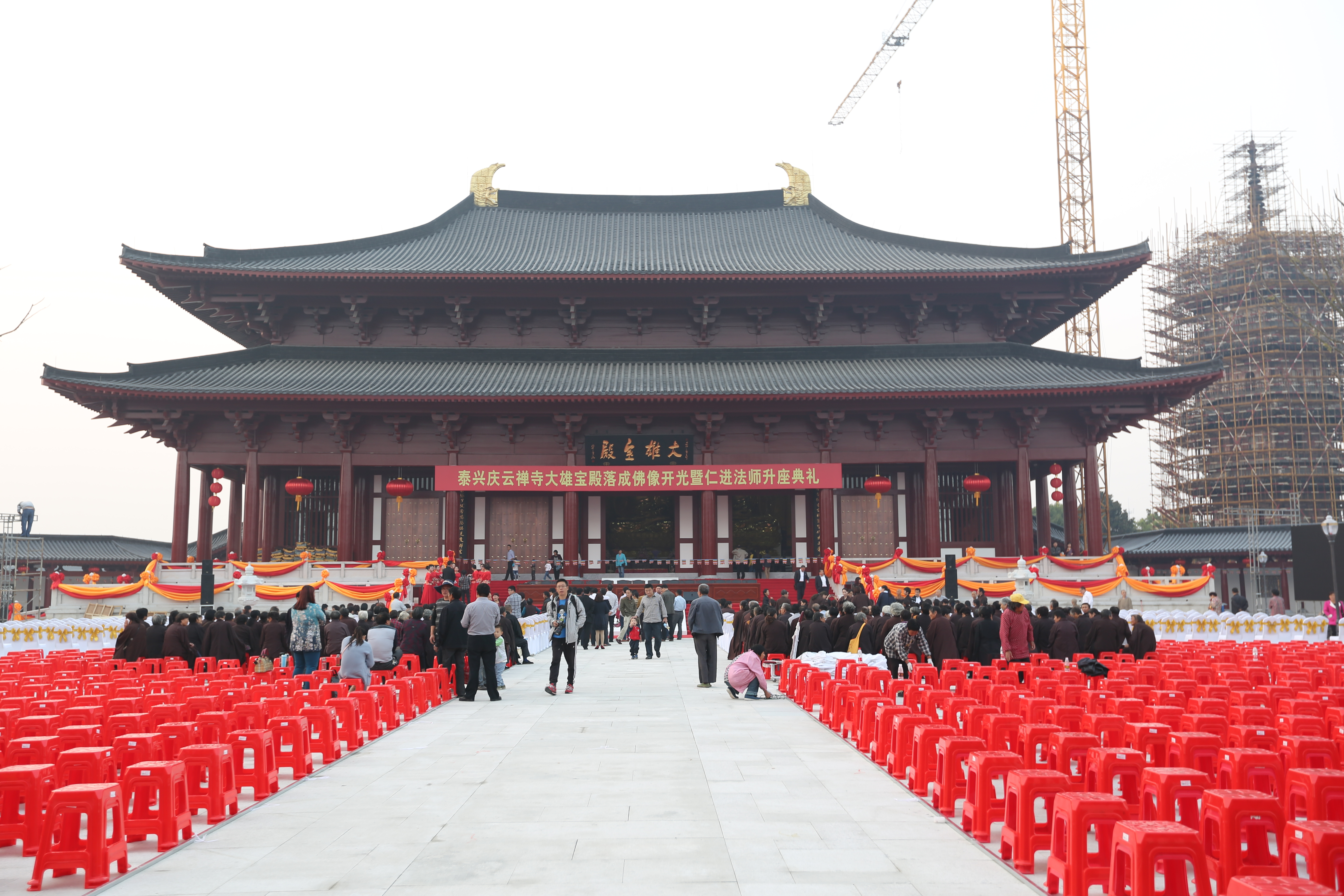 The Mahavira Hall at Qingyun Temple, in Taixing, Jiangsu, China.